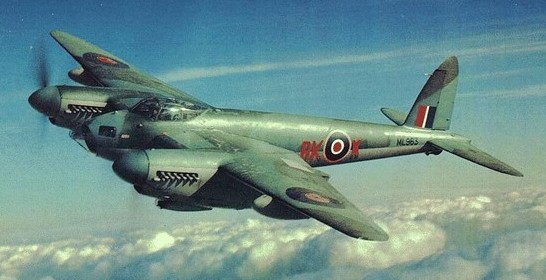 A Royal Air Force de Havilland Mosquito B.XVI (serial ML963) in flight. ML963, 8K-K "King" of No. 571 Squadron, the picture having been taken on 30 September 1944, after the aircraft had completed repairs at Hatfield. ML963 was first issued to 109 Squadron on 9 March 1944, going on to 692 Squadron on the 24th of the same month , and then on to 571 on 19 April 1944. It was damaged in action on 12 May 1944 but returned to the Squadron on 23 October of that year. ML963 completed 84 operations with the Squadron, 31 of them to Berlin (one of the others was a low-level sortie to skip-bomb a 4,000 lb bomb into the Bitburg Tunnel, undertaken on New Year's Day, 1945. The crew were Flt Lt Norman J Griffiths & Flg Off WR Ball). Its final sortie came on 10-11 April 1945, when it was abandoned following an engine fire. The crew, F/O R.D. Oliver and F/S L.M. Young RAAF, rejoined their Squadron before the end of the month, F/O Oliver reporting as early as 22 April 1945.